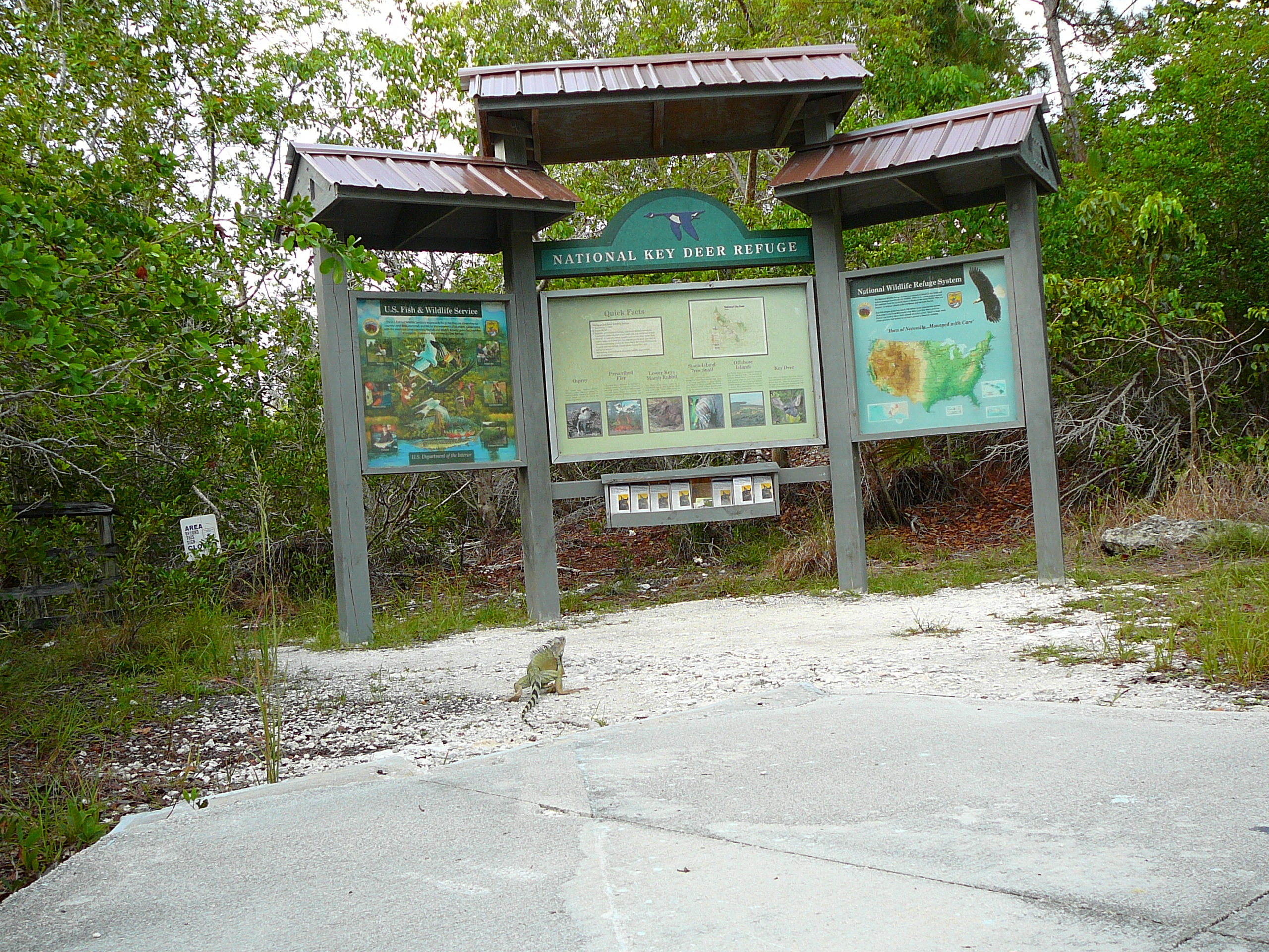 Digital photo taken by Marc Averette. Key Deer Refuge on Big Pine Key in the Florida Keys